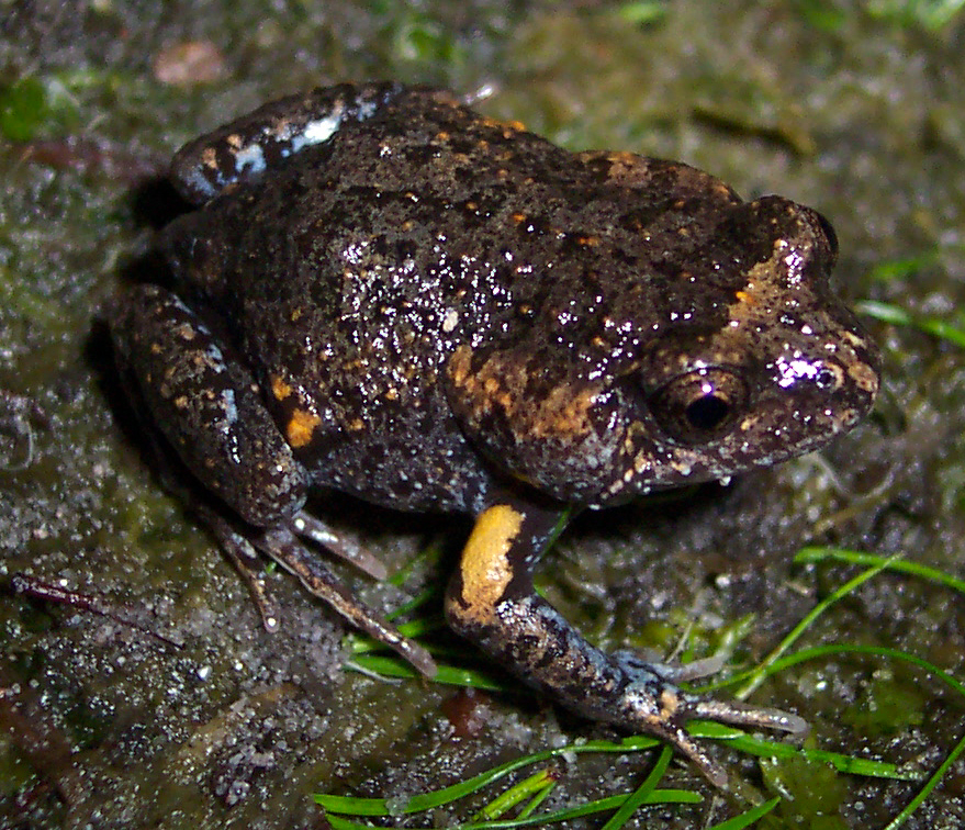 A Tyler's Toadlet, (Uperoleia tyleri, Uperoleia tyleri), from Jervis Bay Territory, New South Wales.